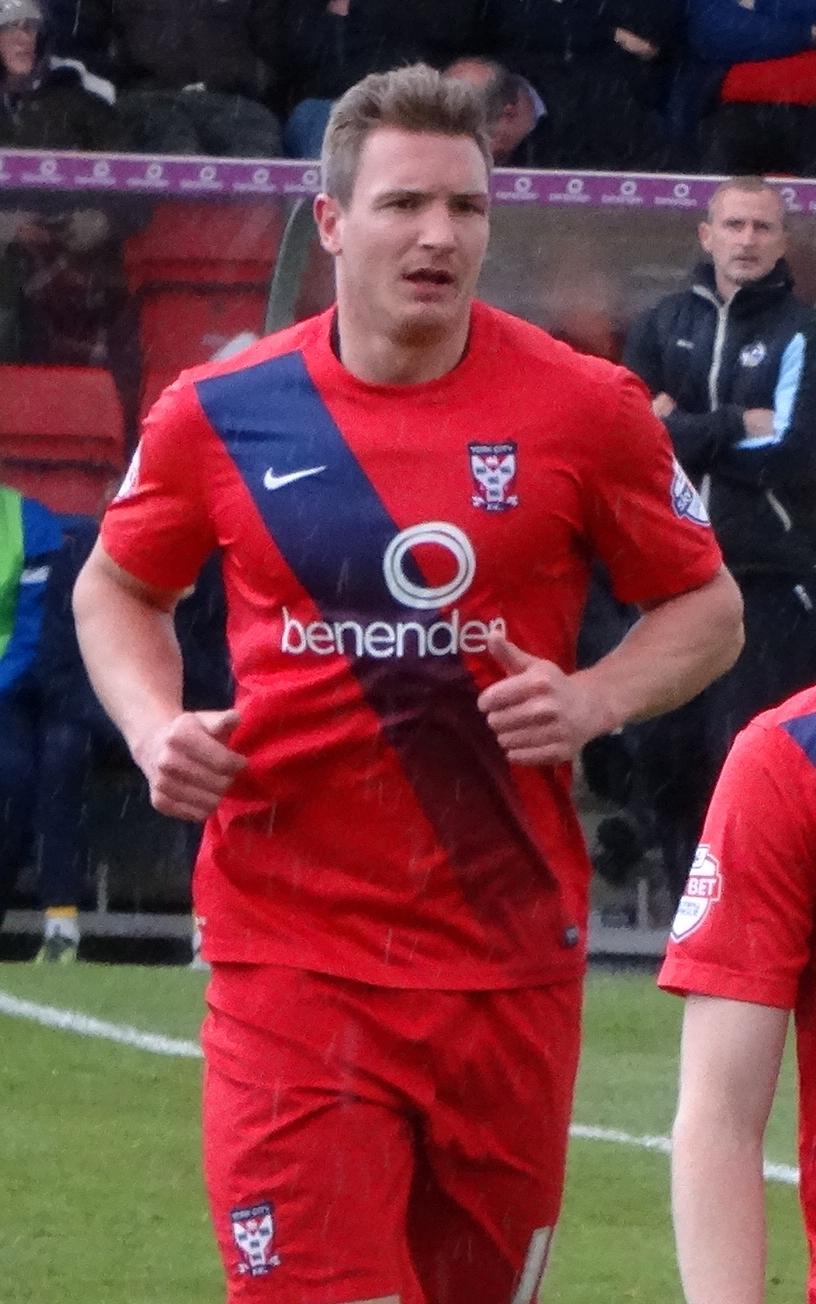 Dave Winfield playing for York City against Bristol Rovers at Bootham Crescent, York on 30 April 2016